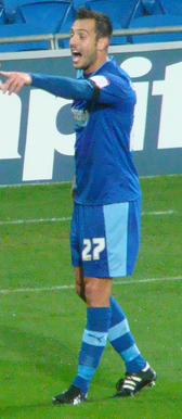 Cassetti in Watford away kit colours.